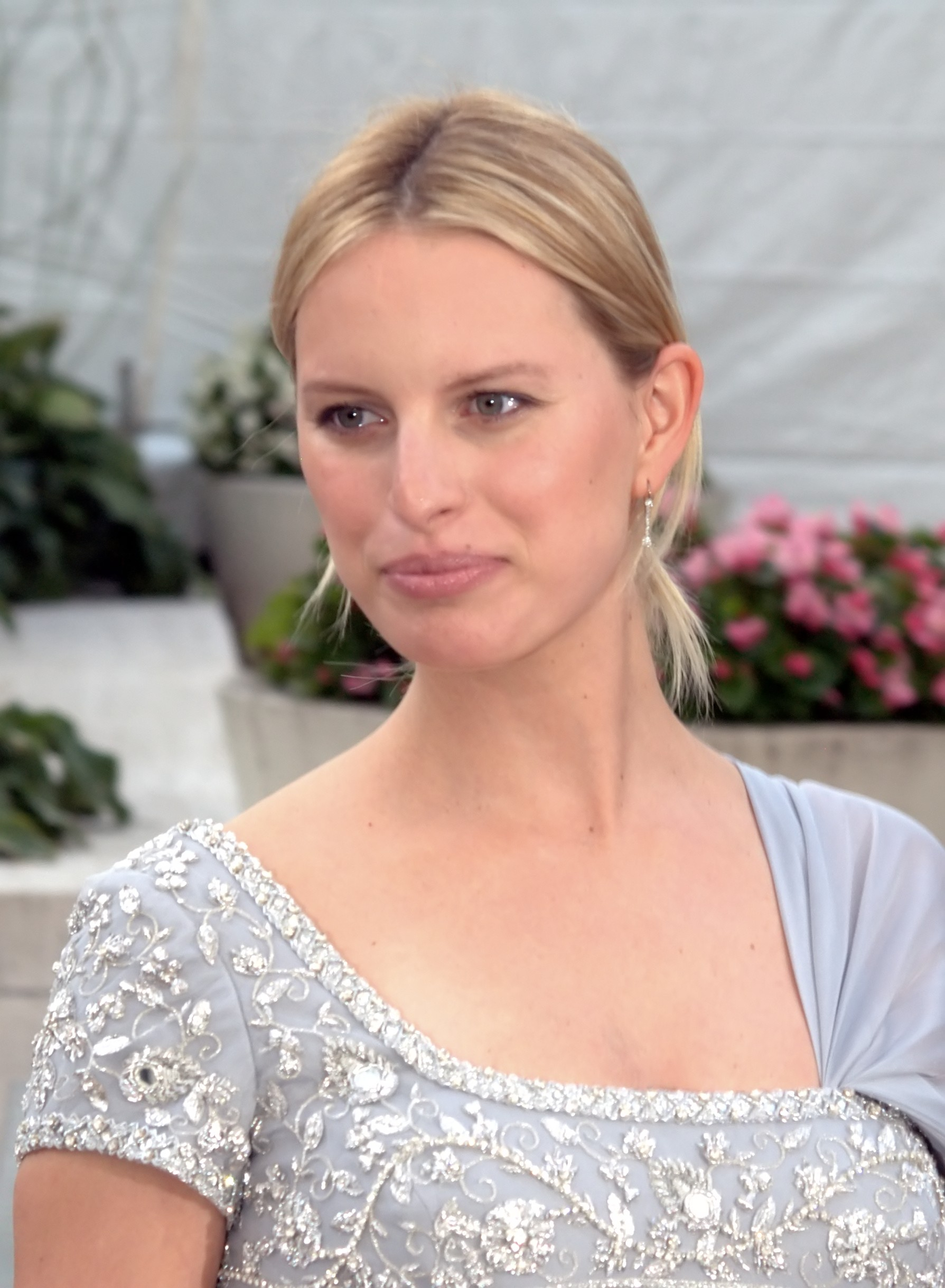 Karolína Kurková at the 2009 premiere of the Metropolitan Opera in New York City. Photographer's blog post about event and photograph.